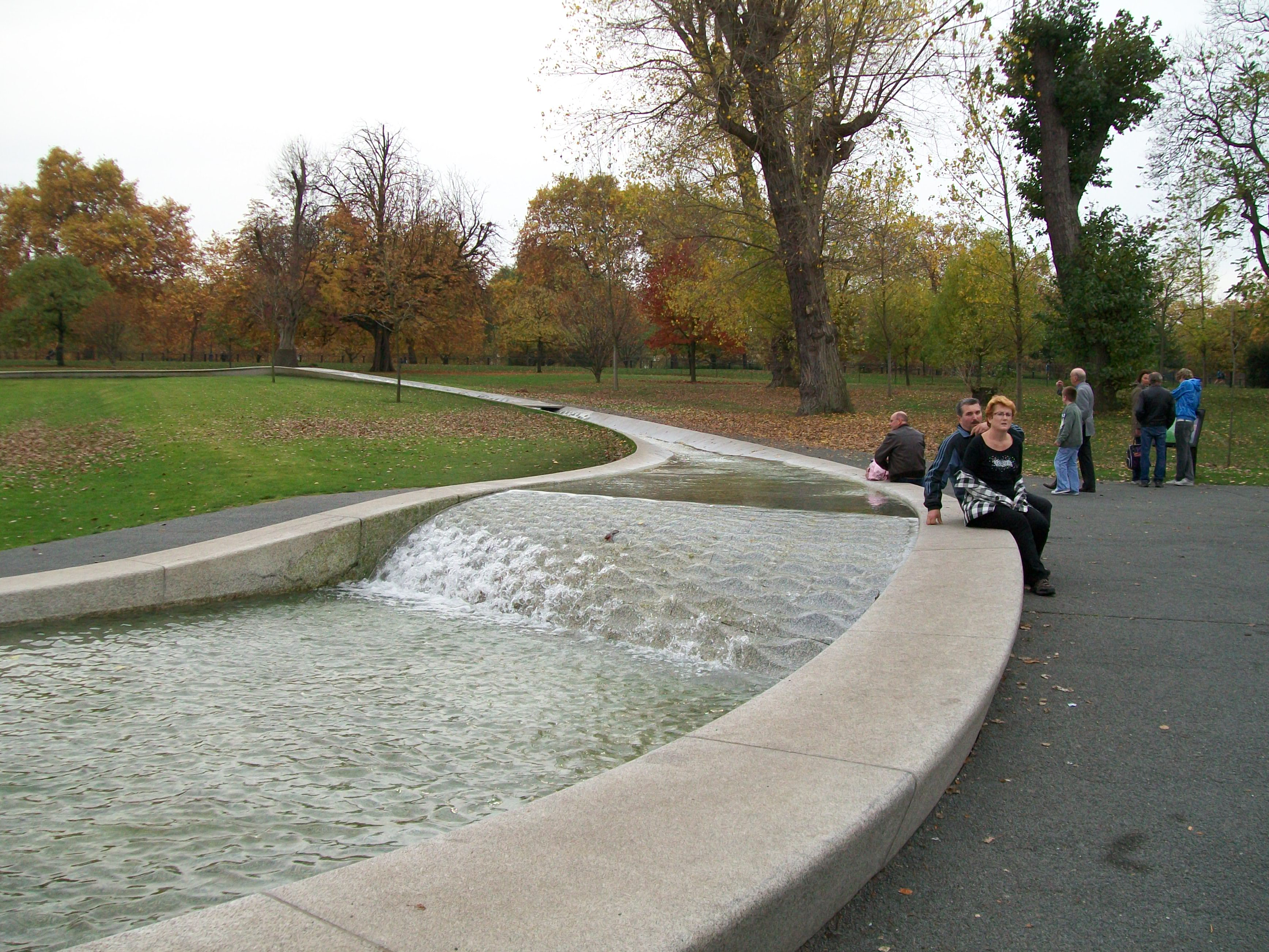 Diana, Princess of Wales Memorial Fountain in Hyde Park, London